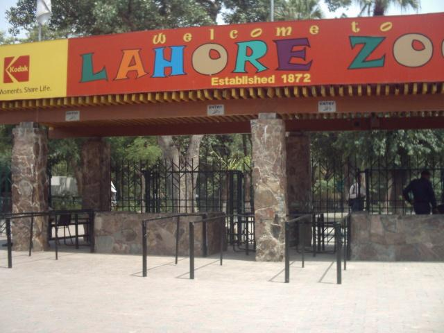 Welcome to The Lahore Zoo Picture taken by Pale blue dot on June 3, 2004.